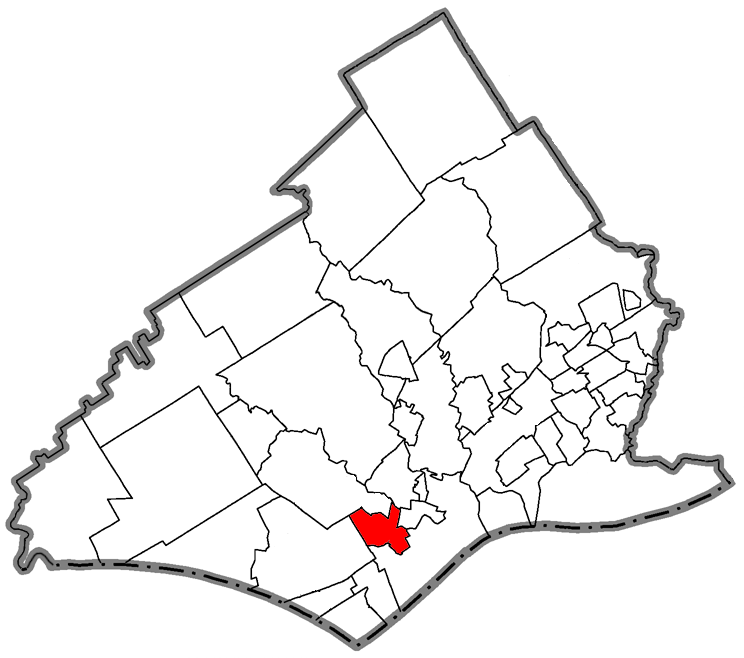 Showing the location within Delaware County, Pennsylvania.